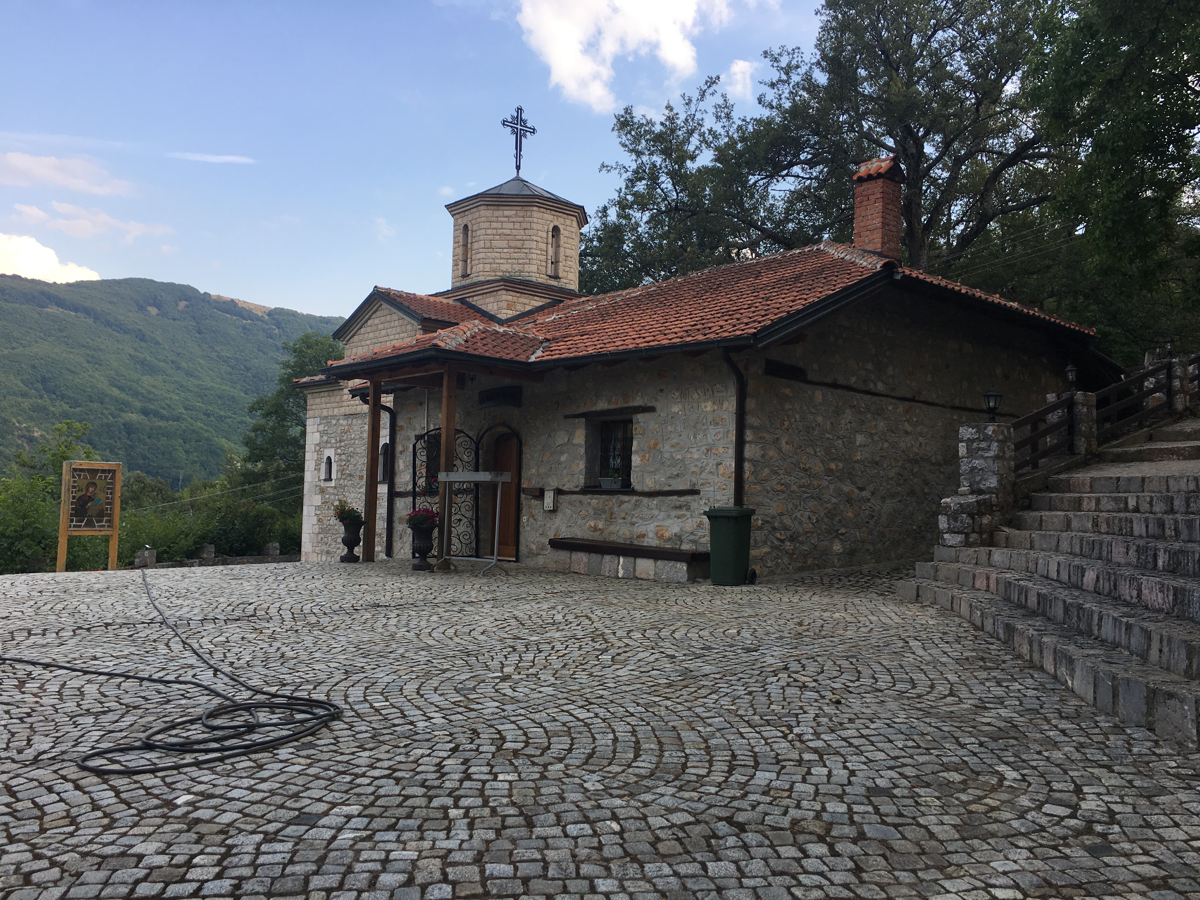 Dormition of the Theotokos Church of the Skrebatno Monastery